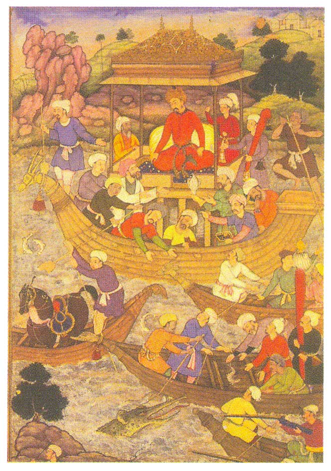 BABUR CROSSING RIVER SON: Folio from an illustrated manuscript of ‘Babur-Namah’, Mughal, Akbar Period, dated AD 1598, Artist: Jagnath